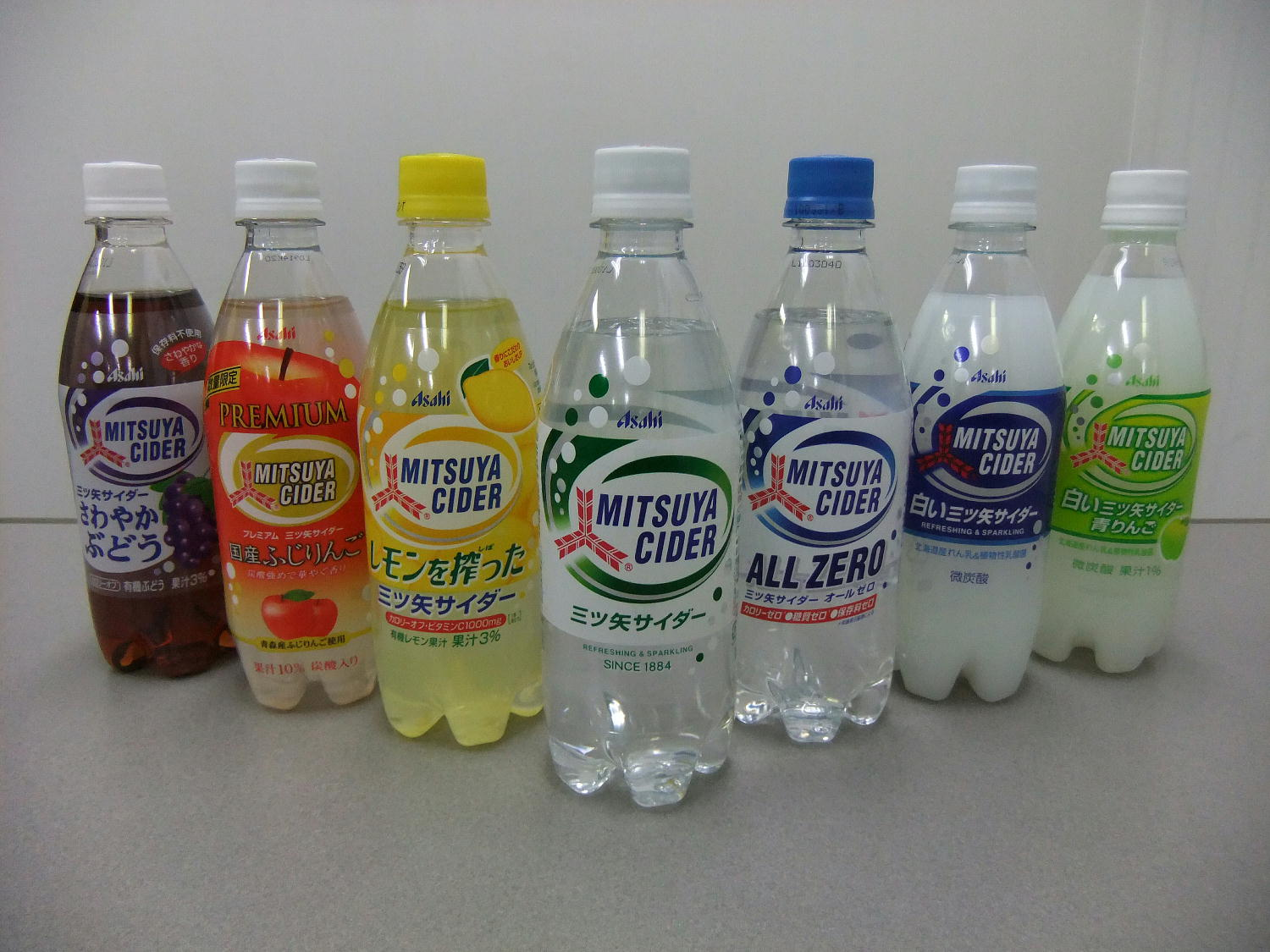 Asahi Soft Drinks, Mitsuya Cider 7 items